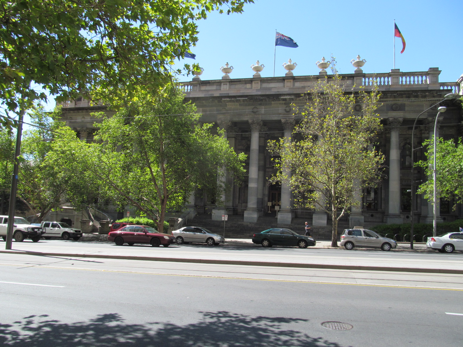 Front of Parliament House, Adelaide.